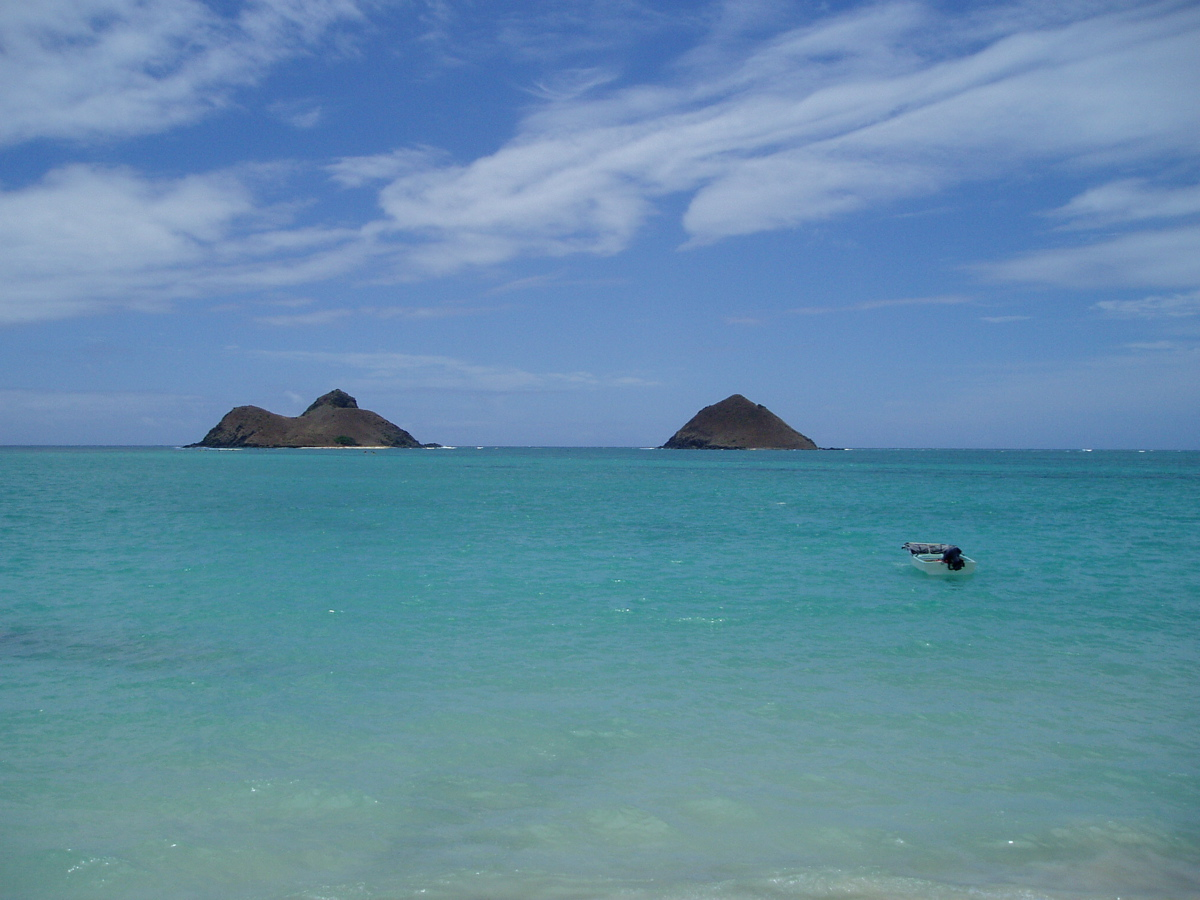 View of Na Mokulua from Lanikai Beach (Oahu, Hawaii)